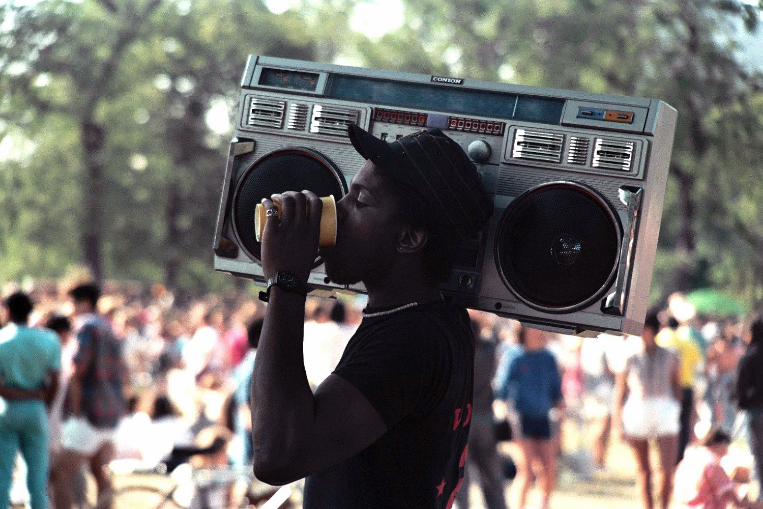 Chicago's 16th Annual Gay & Lesbian Pride Parade, June 1985